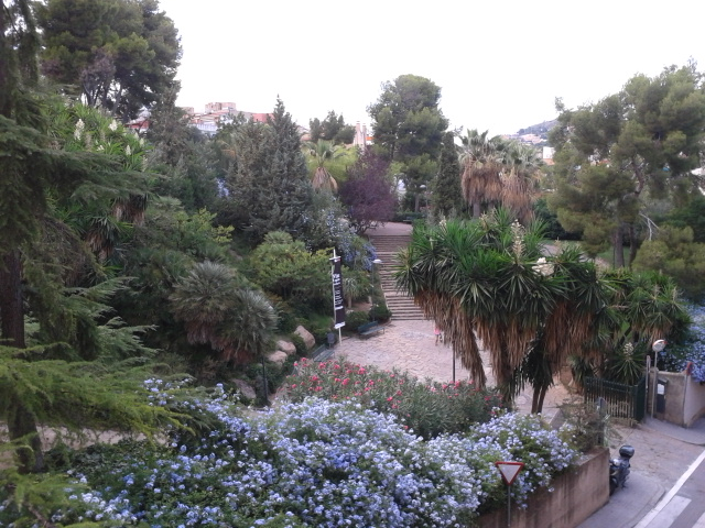 View to one of the entrance of the public Park Putxet in Barcelona